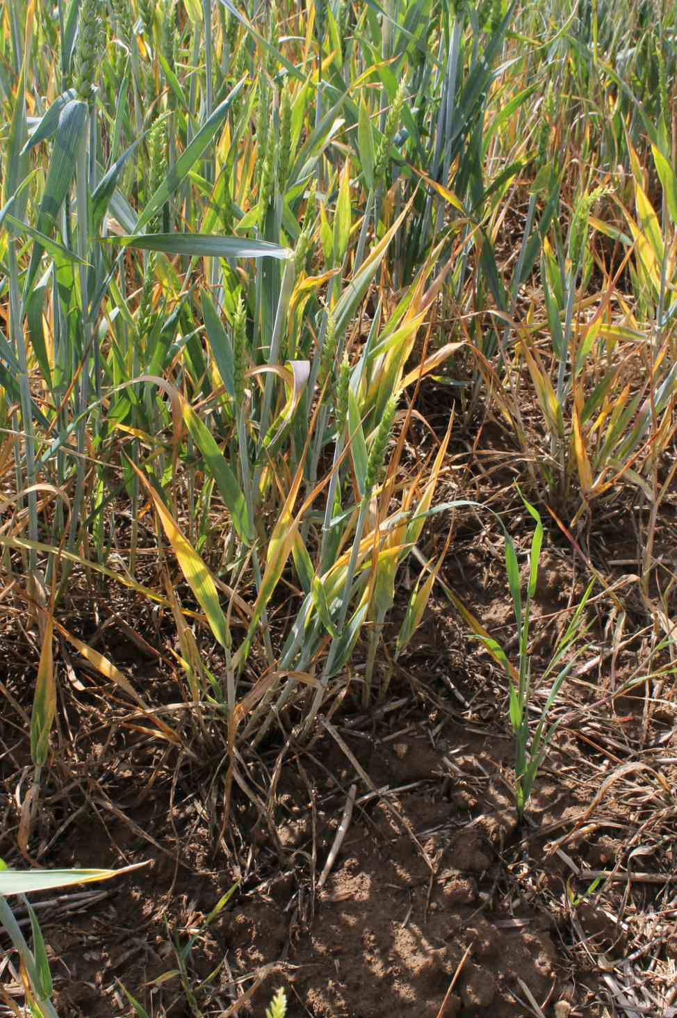 Drought, 2O12 , Brno Komín, 2012 05 31 Czech republic